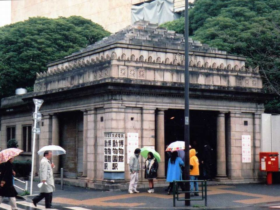 Hakubutsukan-Doubutsuen Sta.